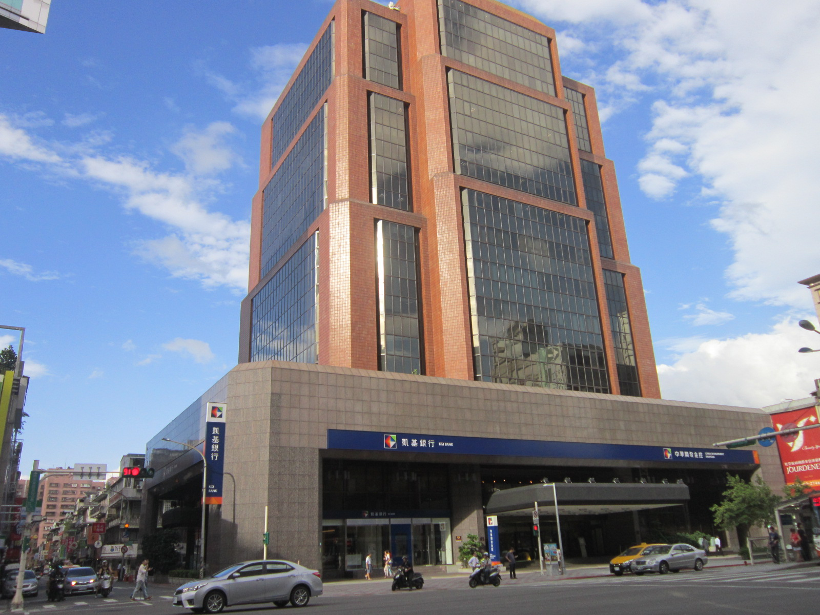 KGI Commercial Bank headquarters at China Development Financial Holding Corporation headquarters.